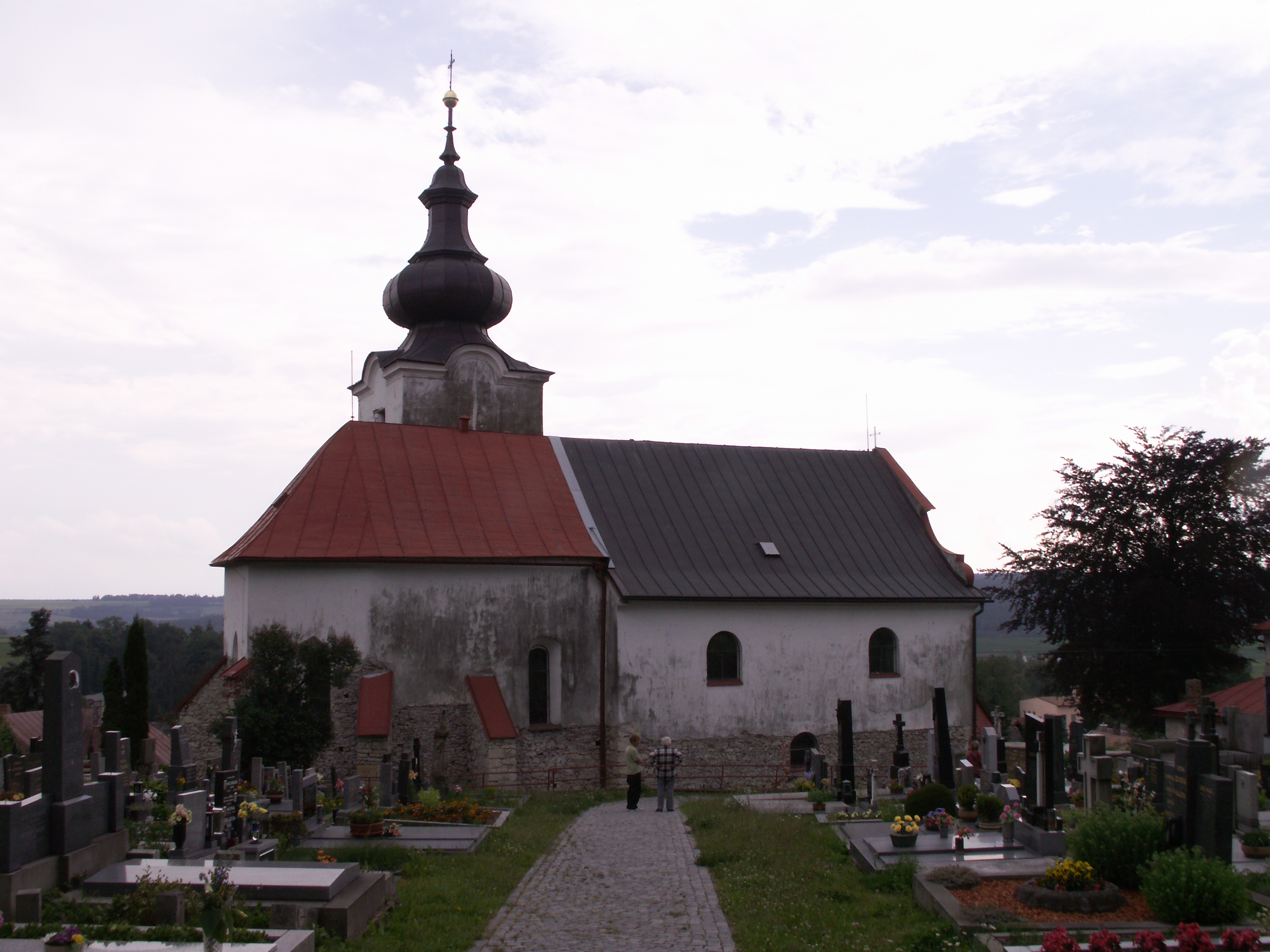 KONICA MINOLTA DIGITAL CAMERA, kostel svatého Mikuláše,Krucemburk, okres Havlíčkův Brod, kraj Vysočina